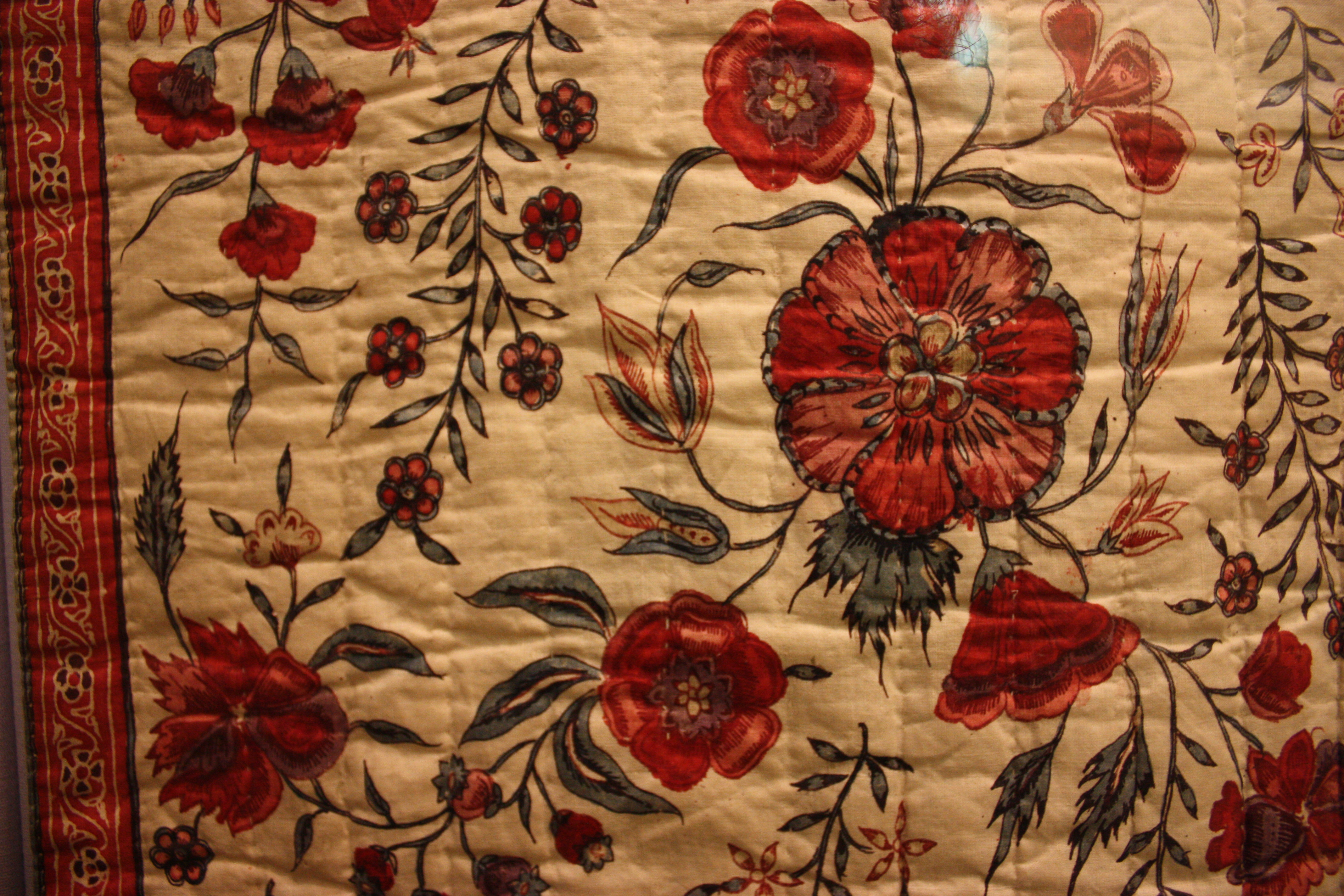 Quilted bed-cover Cotton, resist- and mordant-dyed; quilted and stuffed with cotton Coromandel Coast, South-east India, for the Western market c.1725-50 Museum no. 465-1912 The small overall design of this chintz bed-cover is more reminiscent of dress material than large-scale designs with flowering trees, which were used as furnishings. The inner border is similar to those used on chintzes for the South-east Asian, especially Thai, market, and reminds us that the cotton-painters had to adapt their skills to produce many different types of design for different markets. This type of narrow border is frequently seen on bed-covers with floral patterns like this one. Wikipedia Loves Art at the Victoria and Albert Museum This photo of item # 465-1912 at the Victoria and Albert Museum was contributed under the team name "va_va_val" as part of the Wikipedia Loves Art project in February 2009. Victoria and Albert Museum The original photograph on Flickr was taken by Val_McG—please add a comment to the original Flickr page whenever a use has been made on Wikipedia or another project. Project galleries on Flickr: this institution, this team